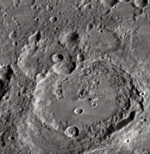 Maurolycus lunar crater as seen from Earth with satellite craters labeled